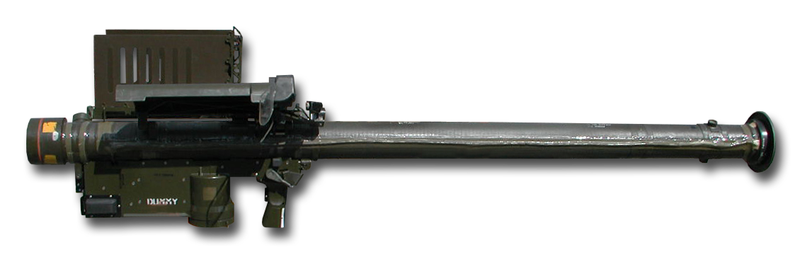 FIM-92 of the JASDF displayed at JASDF Komaki AB